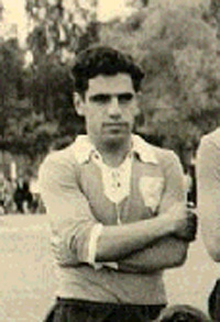 Hossein Fekri